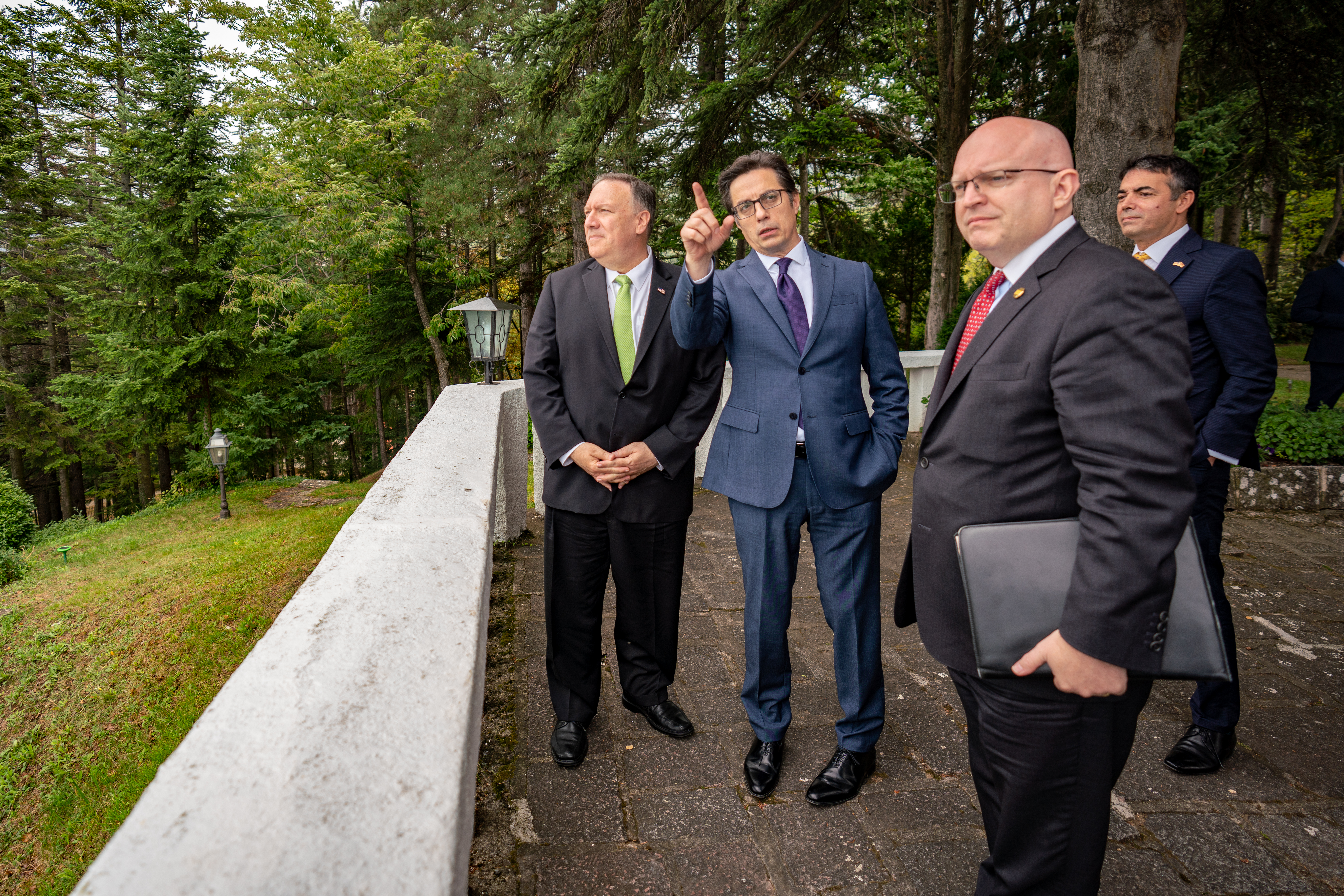 U.S. Secretary of State Michael R. Pompeo meets with North Macedonia President Stevo Pendarovski in Lake Ohrid, North Macedonia, on October 4, 2019. [State Department photo by Ron Przysucha/ Public Domain]